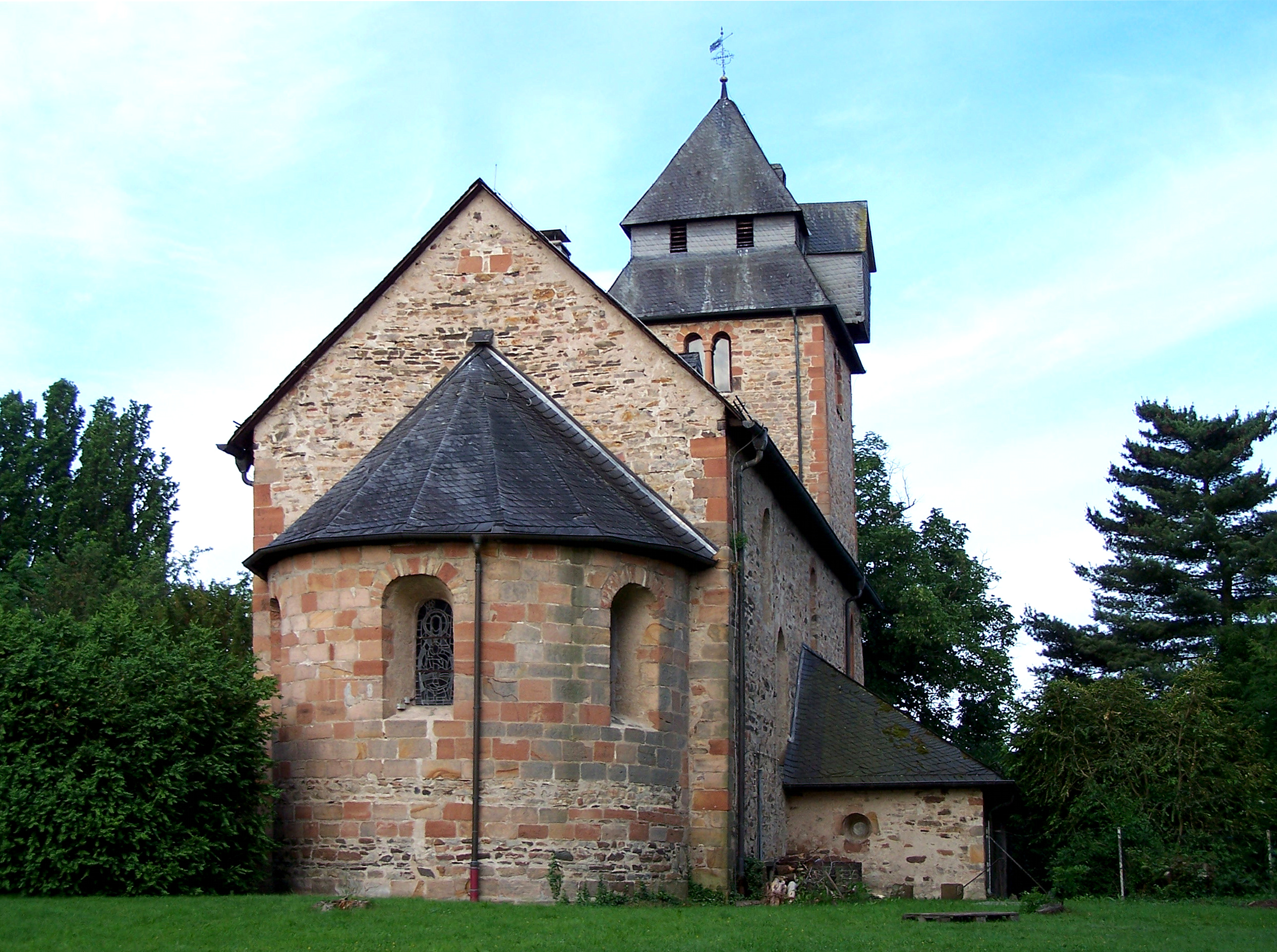 Late romanesque evangelic Nicholas-Church in Caldern, former monastery church of Cistercian nuns first mentioned in 1235 and monastery church from 1250 until 1527, June 2012